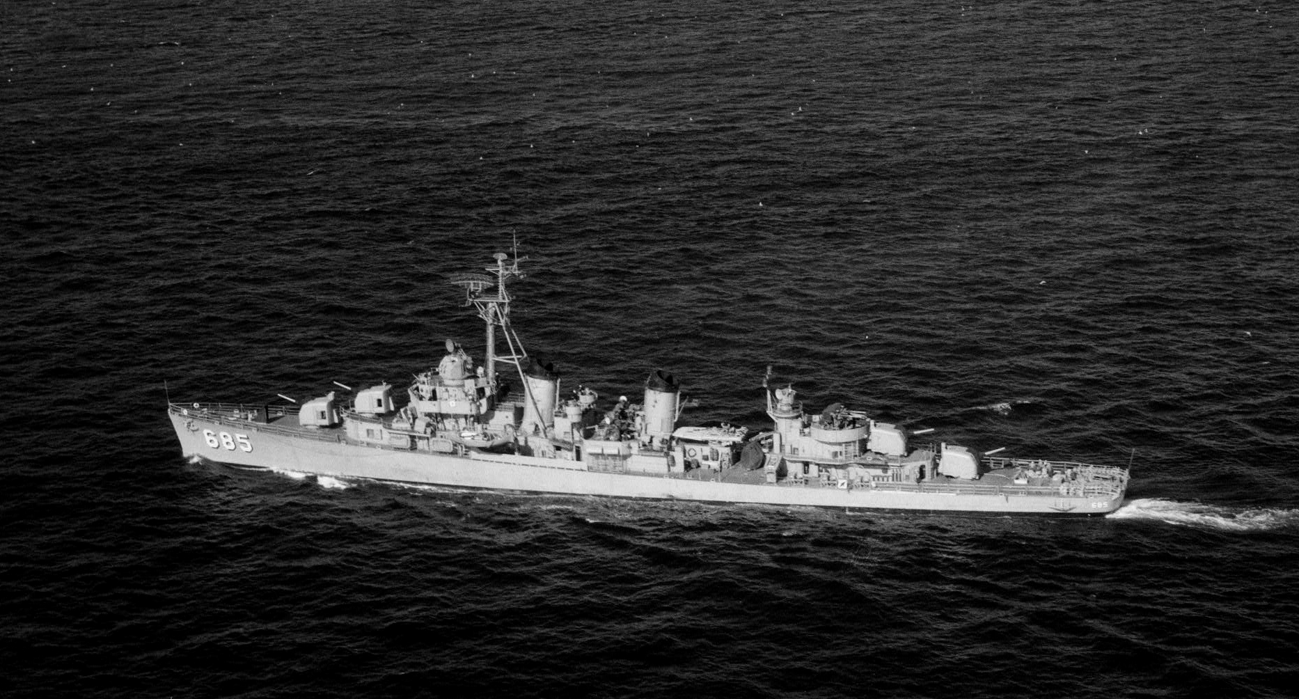 The U.S. Navy destroyer USS Picking (DD-685) underway on 24 October 1951.